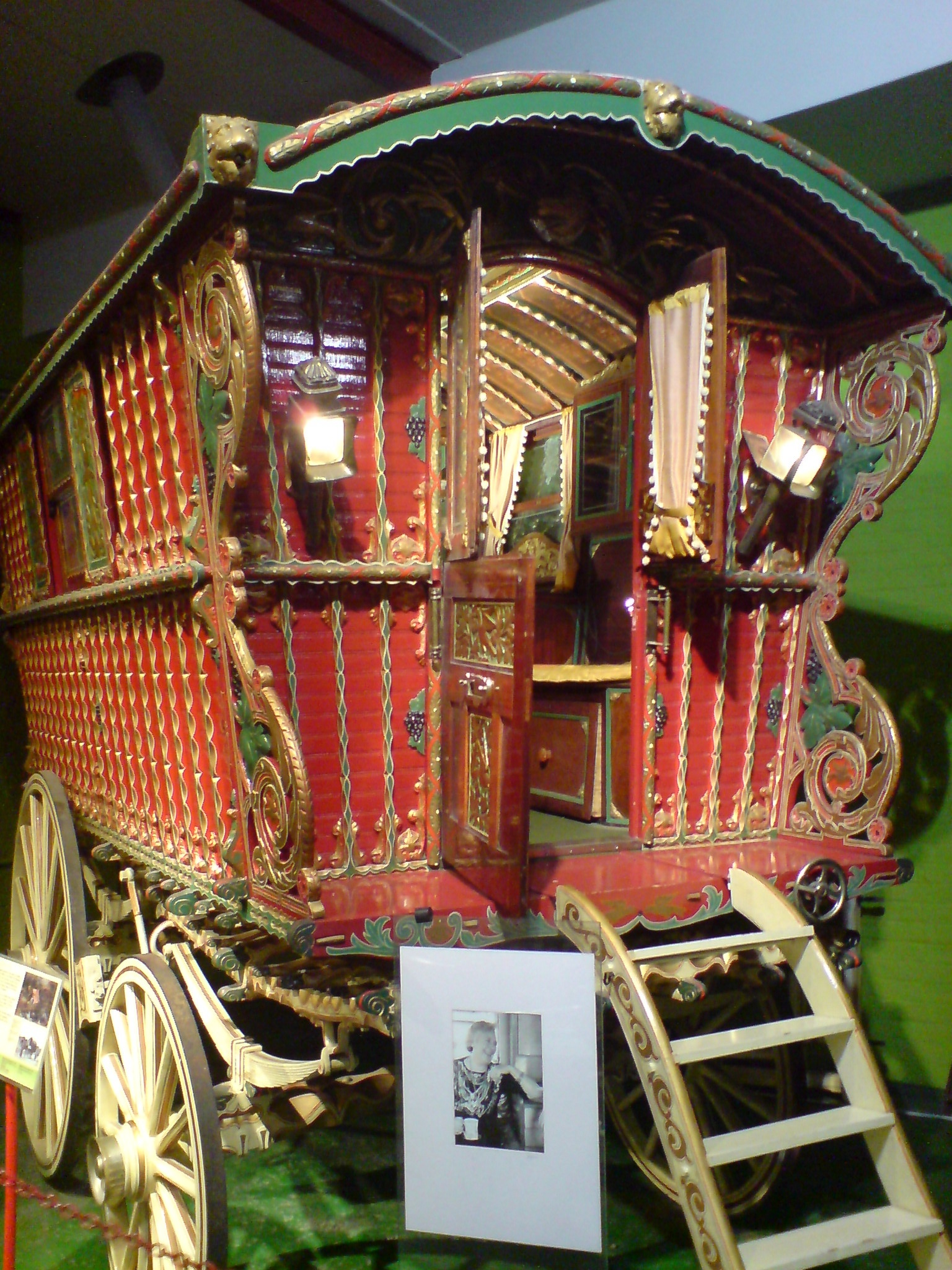 A Romanichal Vardo, at the Glasgow Museum of Transport.